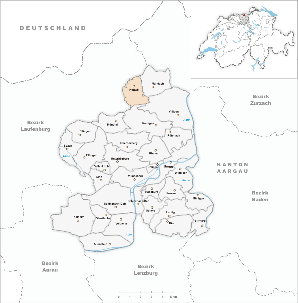 Municipality Hottwil